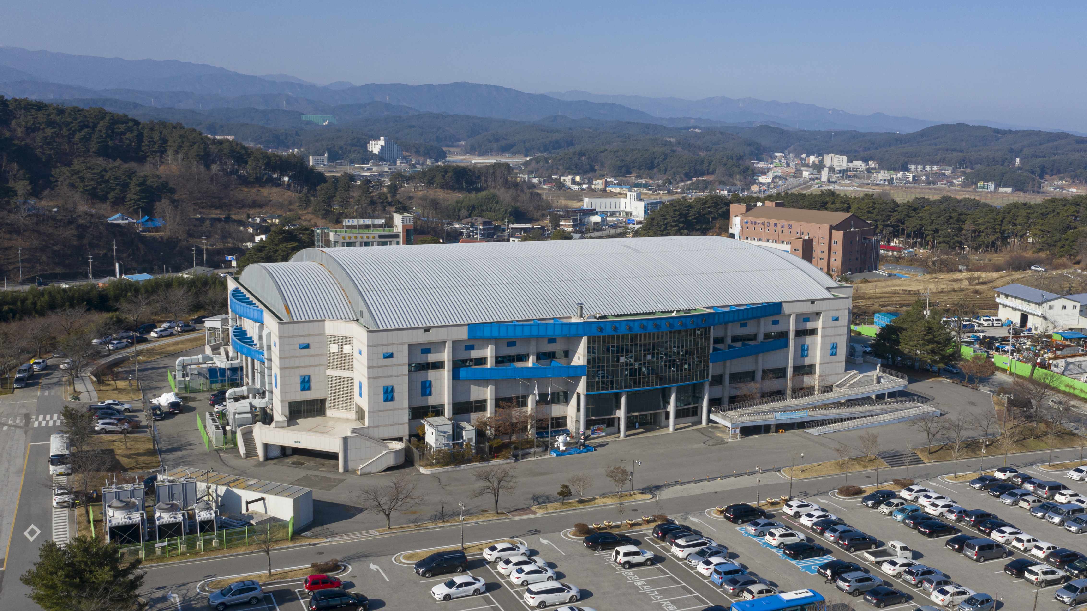 Aerial view of Gangneung Gymnasium, South Korea